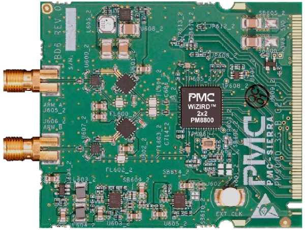 PMC-Sierra wizird